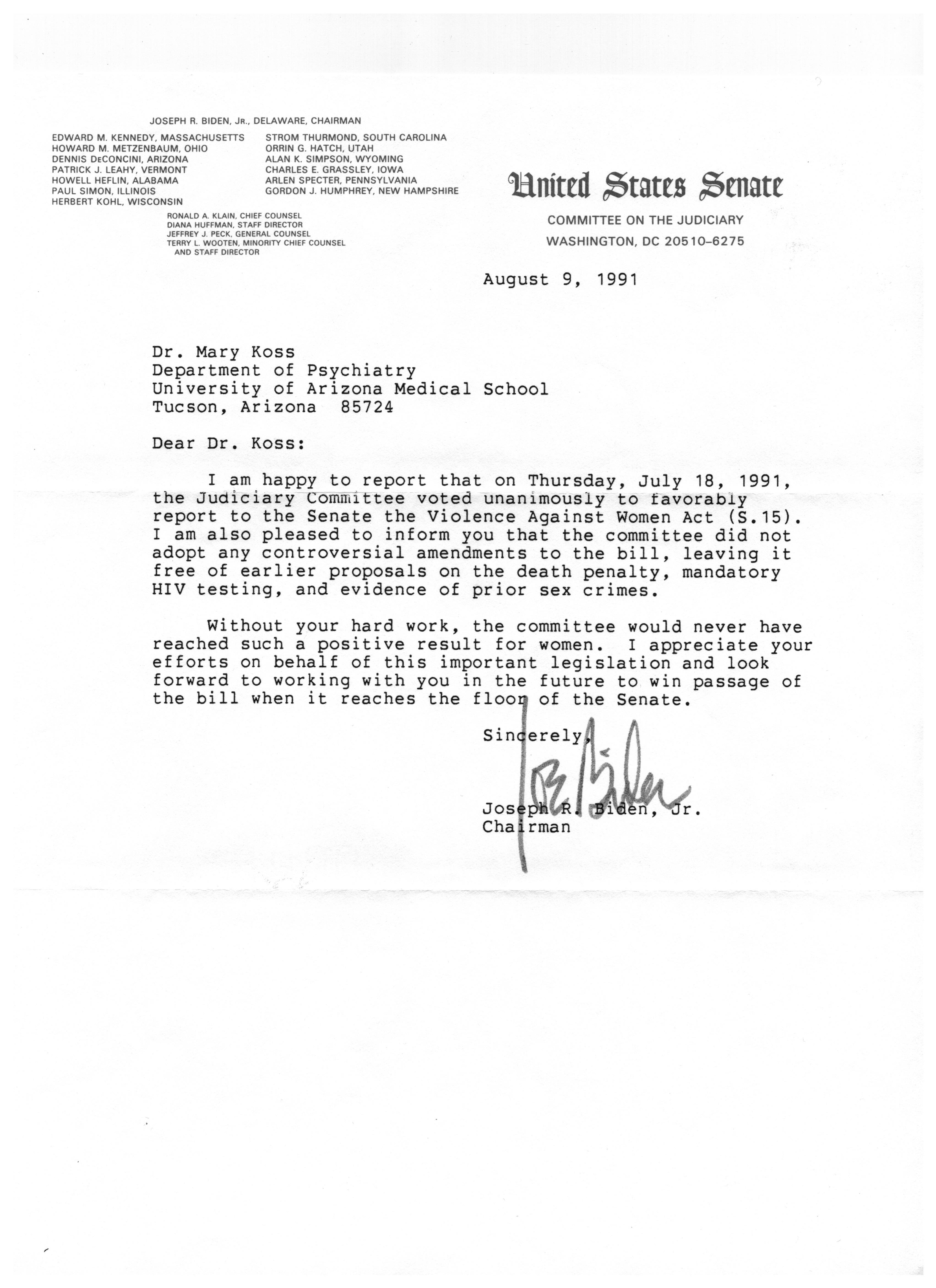 A letter addressed to Mary Koss written by Chairman Joe Biden regarding her testifying as an expert witness at the U.S. Senate hearings that lead to the passage of the Violence Against Women Act